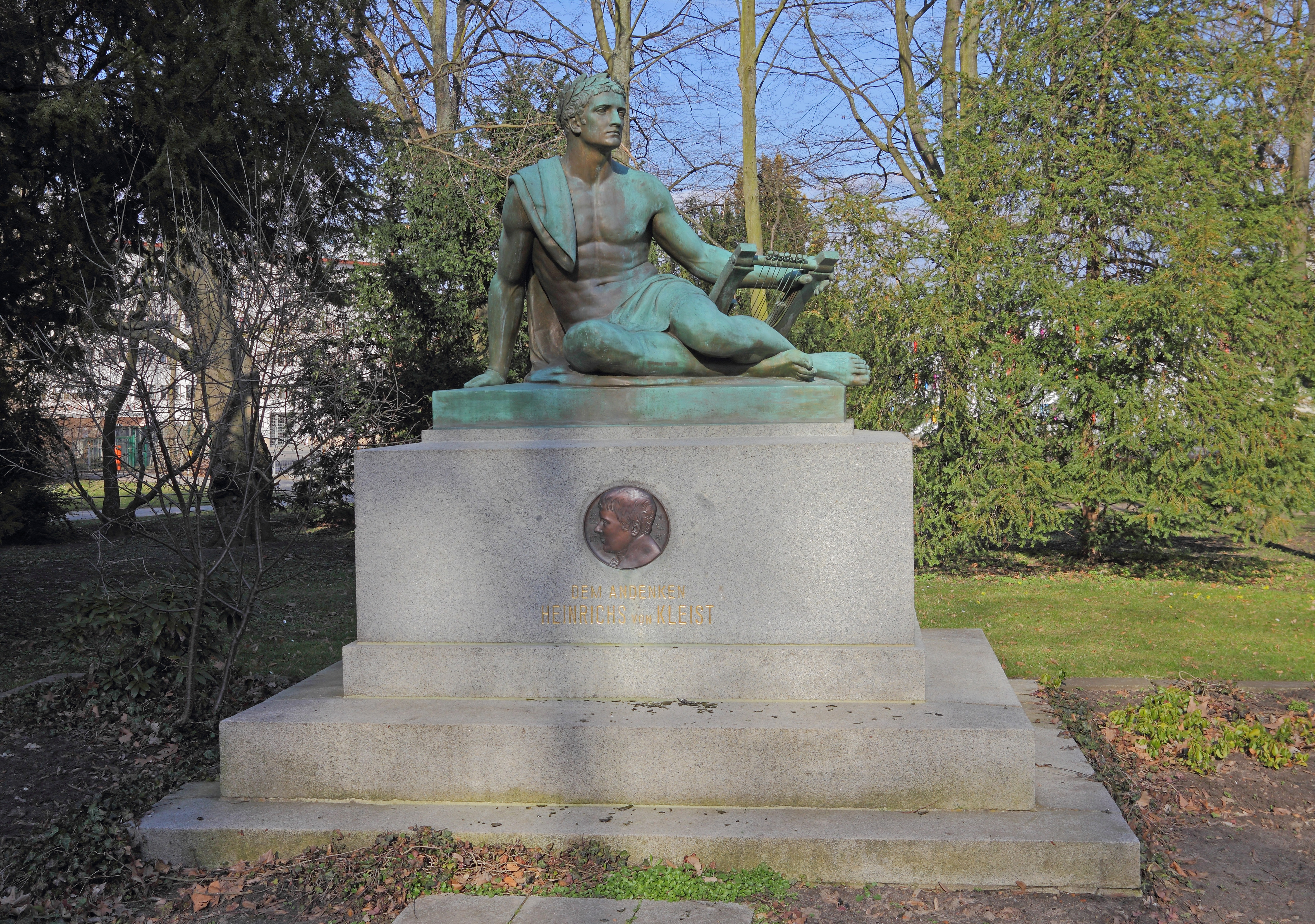 Kleist monument in Kleistpark, Frankfurt (Oder), Brandenburg, Germany